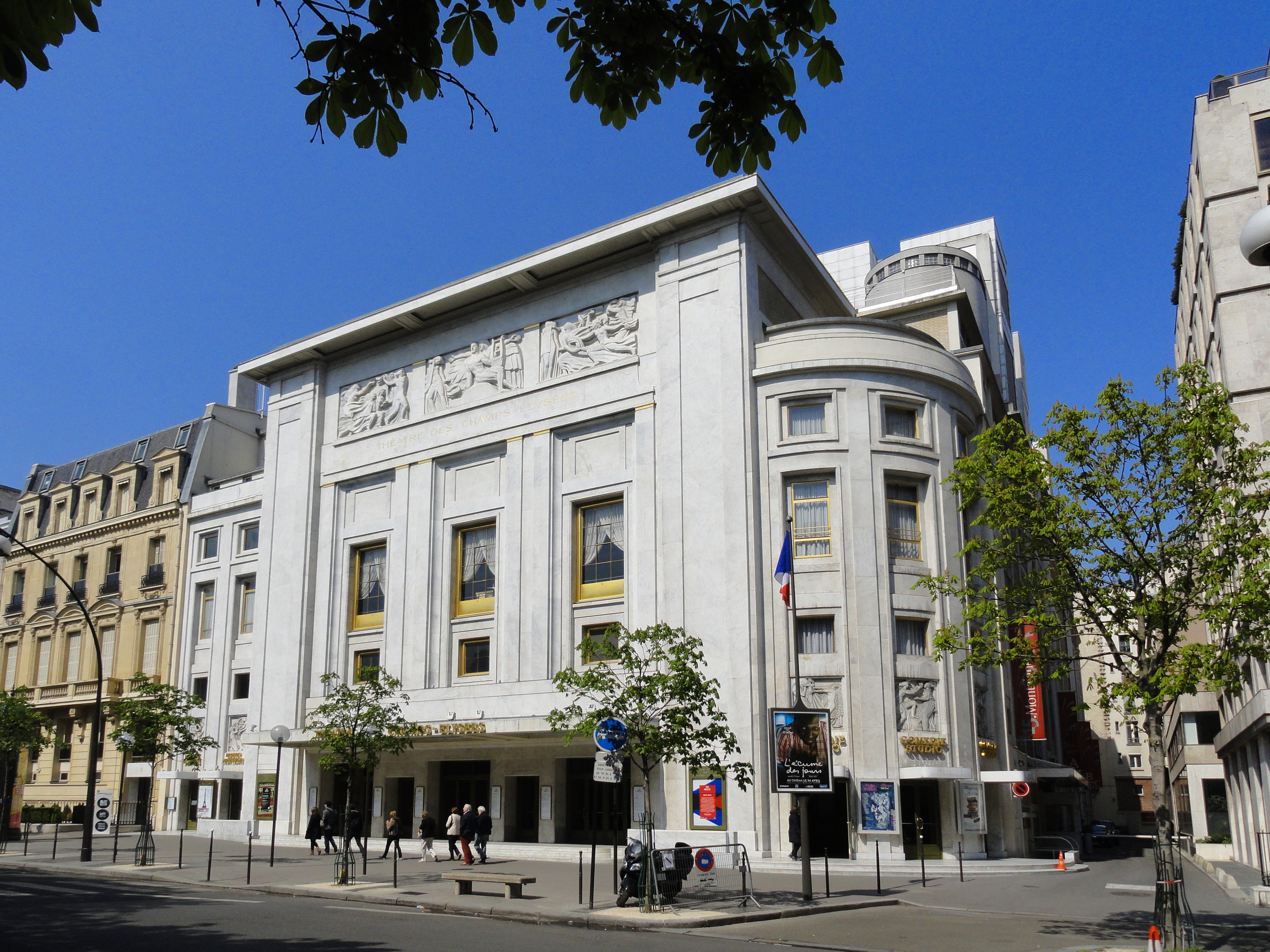 Avenue Montaigne (Champs-Elysées theater) - Paris